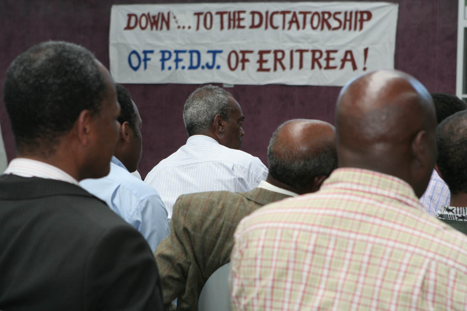 Demonstration of ELF-Supporters against rule of PFDJ-party in eritrea, Kalbach, Frankfurt (Main)